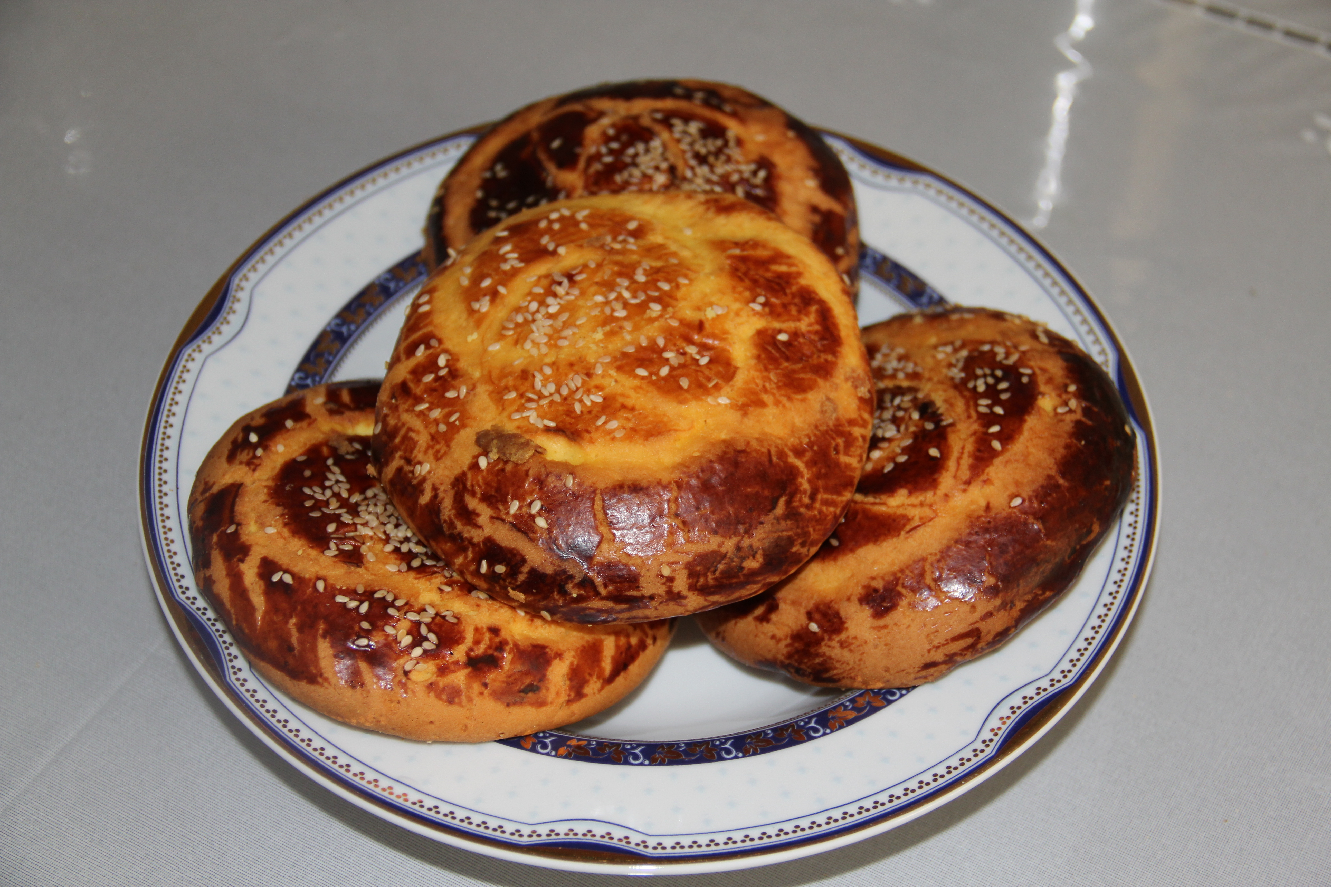 Komaj